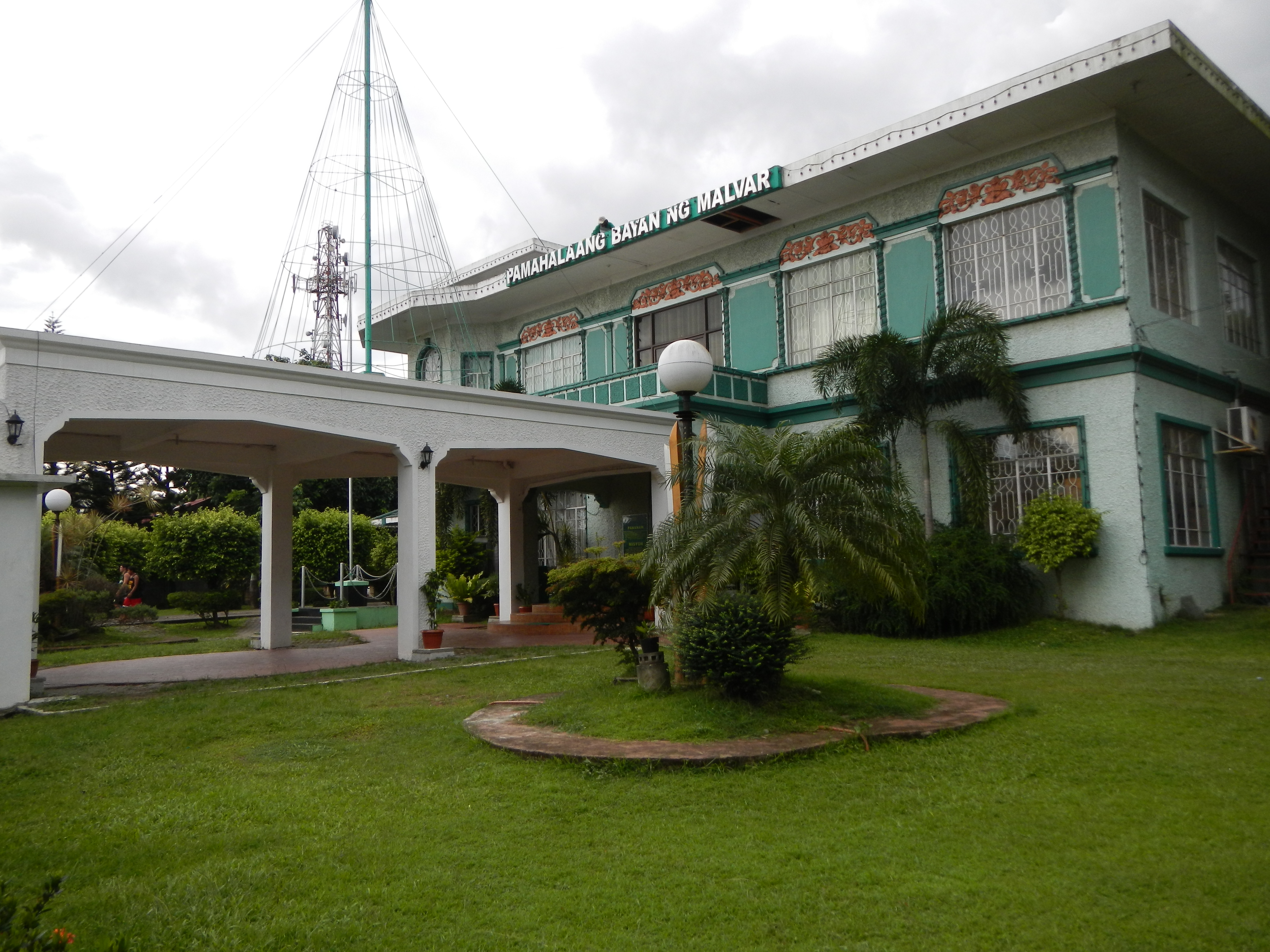 Malvar Town Hall (San Pioquinto) J. P. Laurel Highway and General Miguel Malvar Monument in - Coordinates: 14°3'14"N 121°9'16"E - Office of the Mayor Municipal Treasurer's office Office of the Vice Mayor Municipal Administrator office Municipal Engineering office Municipal Planning office Municipal health center -[Coordinates: 14°3'14"N 121°9'16"E] --National Highway - Barangay San Pioquinto[1] Coordinates: 14°3'18"N 121°9'44"E - Elementary School in front of the Muncipio, or Municipal - Town Hall Building Complex[2] --- Malvar, Batangas [3] is a second class municipality in the Province of Batangas[4], Philippines. As of 2009, the population of Malvar was 41,270 and the total number of households was 8,678. The municipality was named after General Miguel Malvar[5], the last Filipino General to surrender to the American Government in the Philippines in 1902.[6] Geographical location: Batangas, Region 4, Philippines, Asia geographical coordinates: 14° 2' 41" North, 121° 9' 31" East [7] Coordinates: 14°1'55"N 121°8'42"E